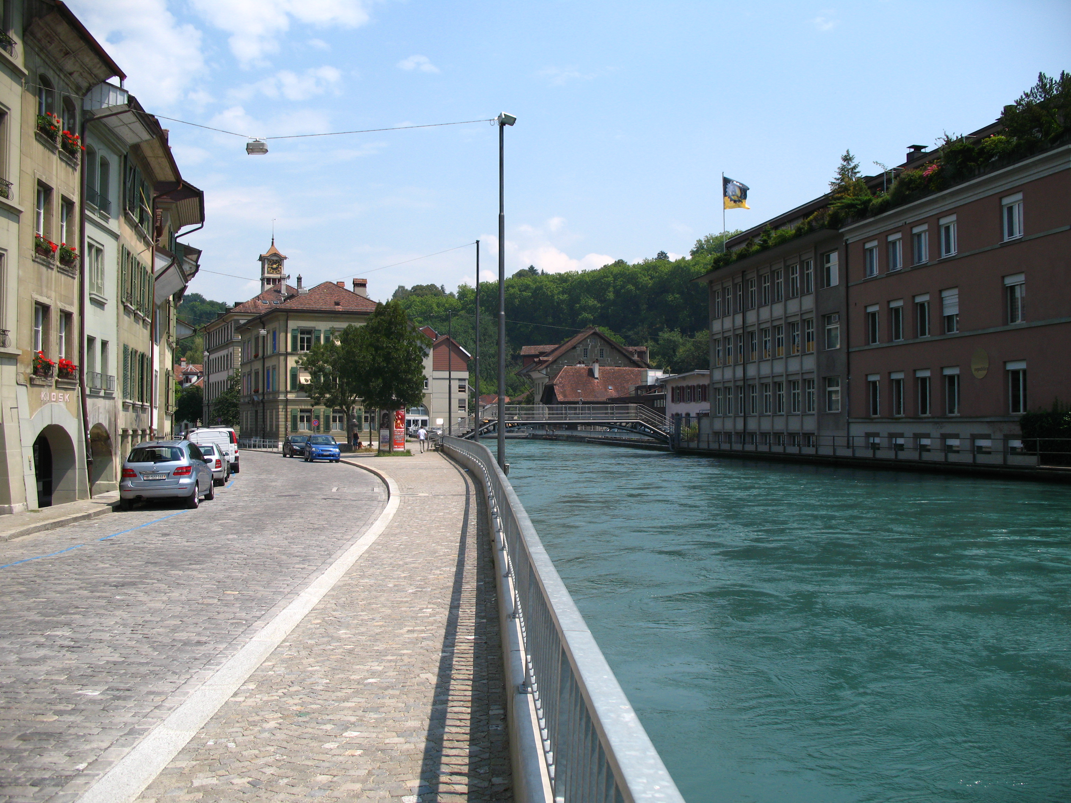 Schifflaube, Berne, Switzerland